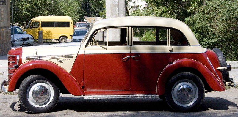 Renovated Moskvitch 400 seen on the streets of Bishkek. Author: Darya Galichenko.